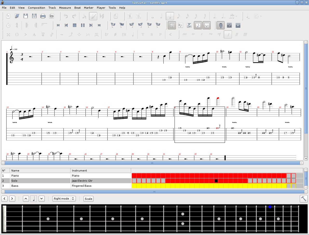 A screenshot of TuxGuitar 1.0 playing a box.